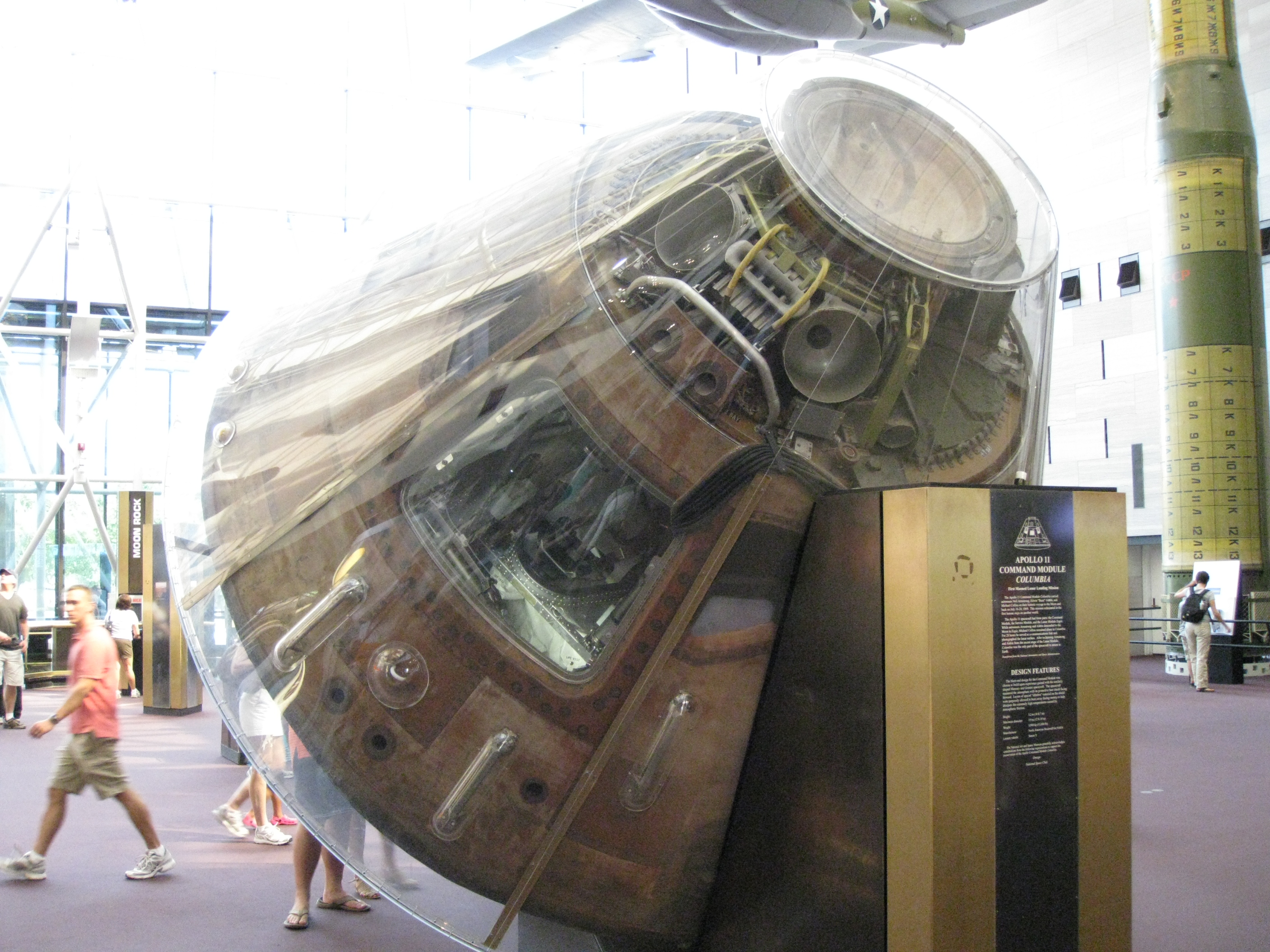 Apollo 11 Command module in Smithonian Museum